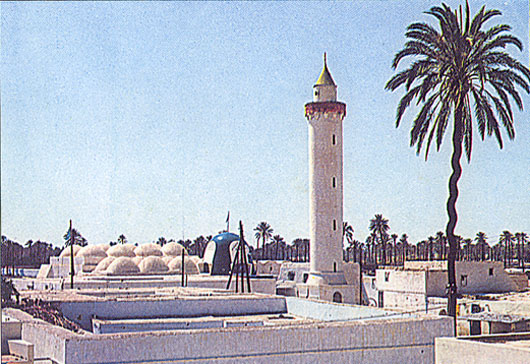 Abd es Salam El Asmar Zawya in Zliten.